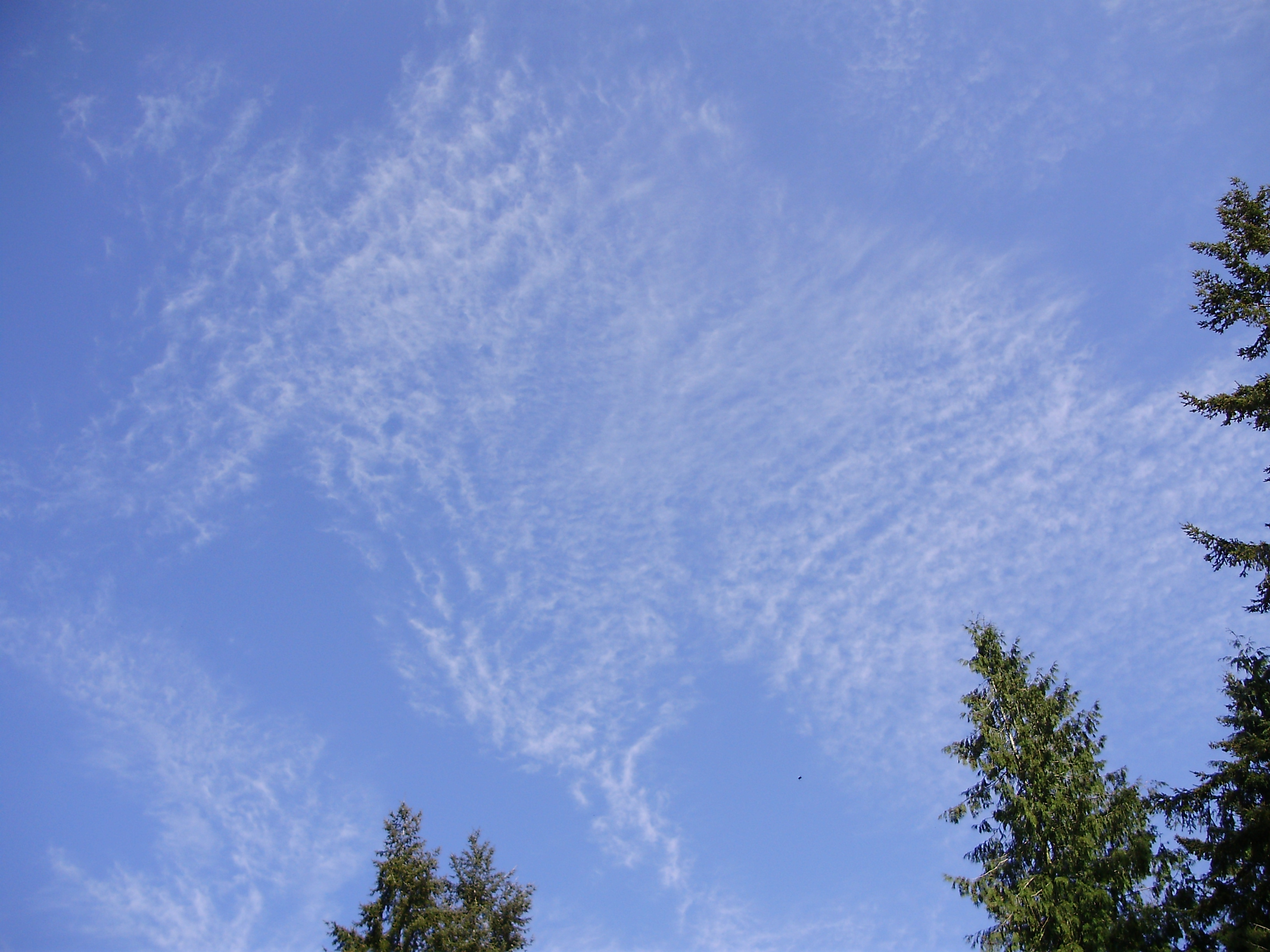 Cirrocumulus clouds floating over Langley, BC. They also have some qualities of Cirrocumulus undulatus.